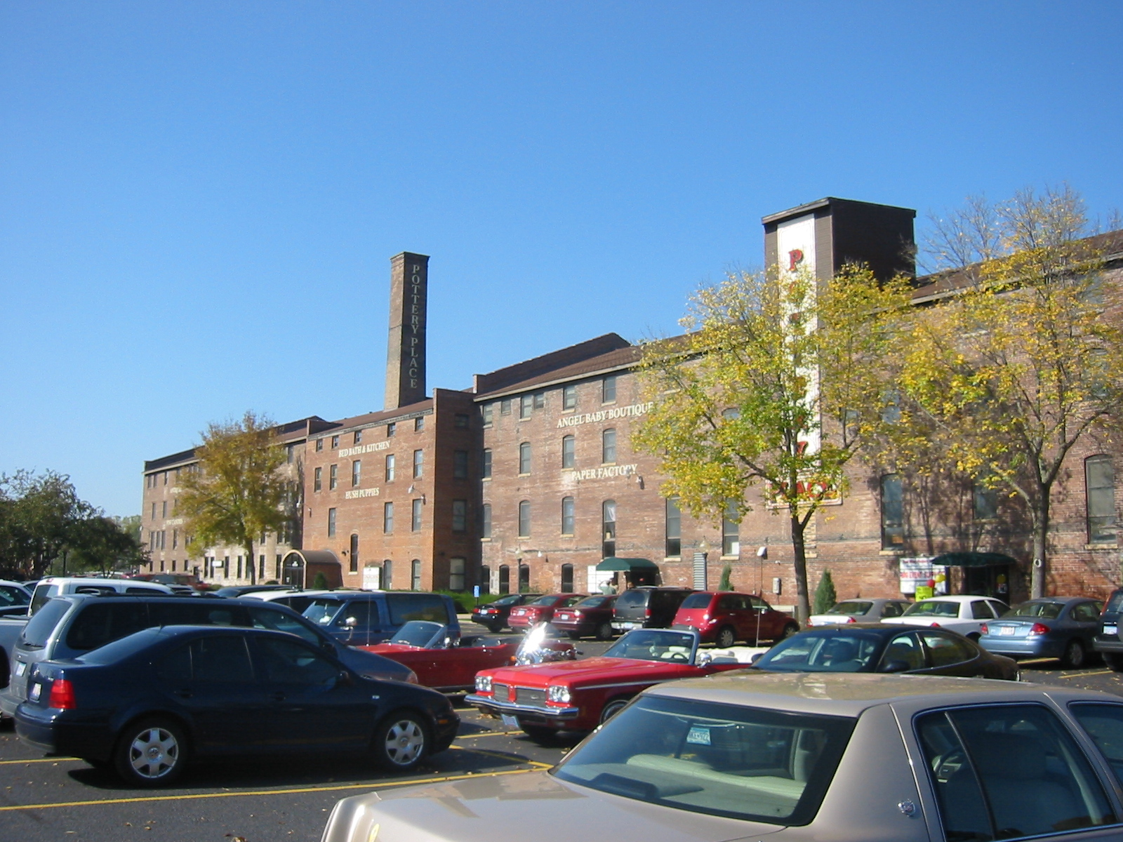 Minnesota Stoneware Company in Red Wing, Minnesota, listed on the National Register of Historic Places.